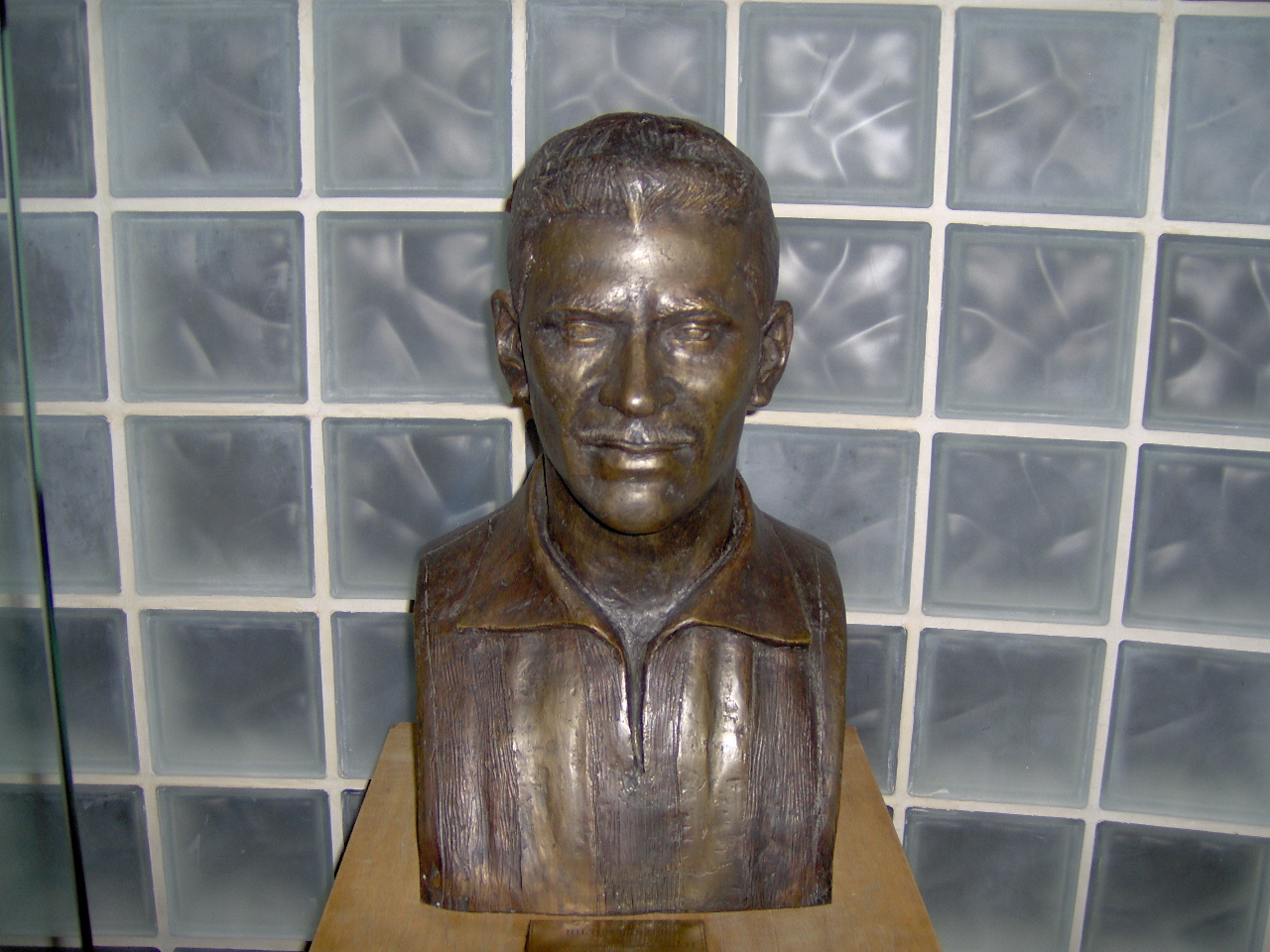 Photo of a statue of brazilian soccer player Nilton Santos in club Botafogo de Futebol e Regatas